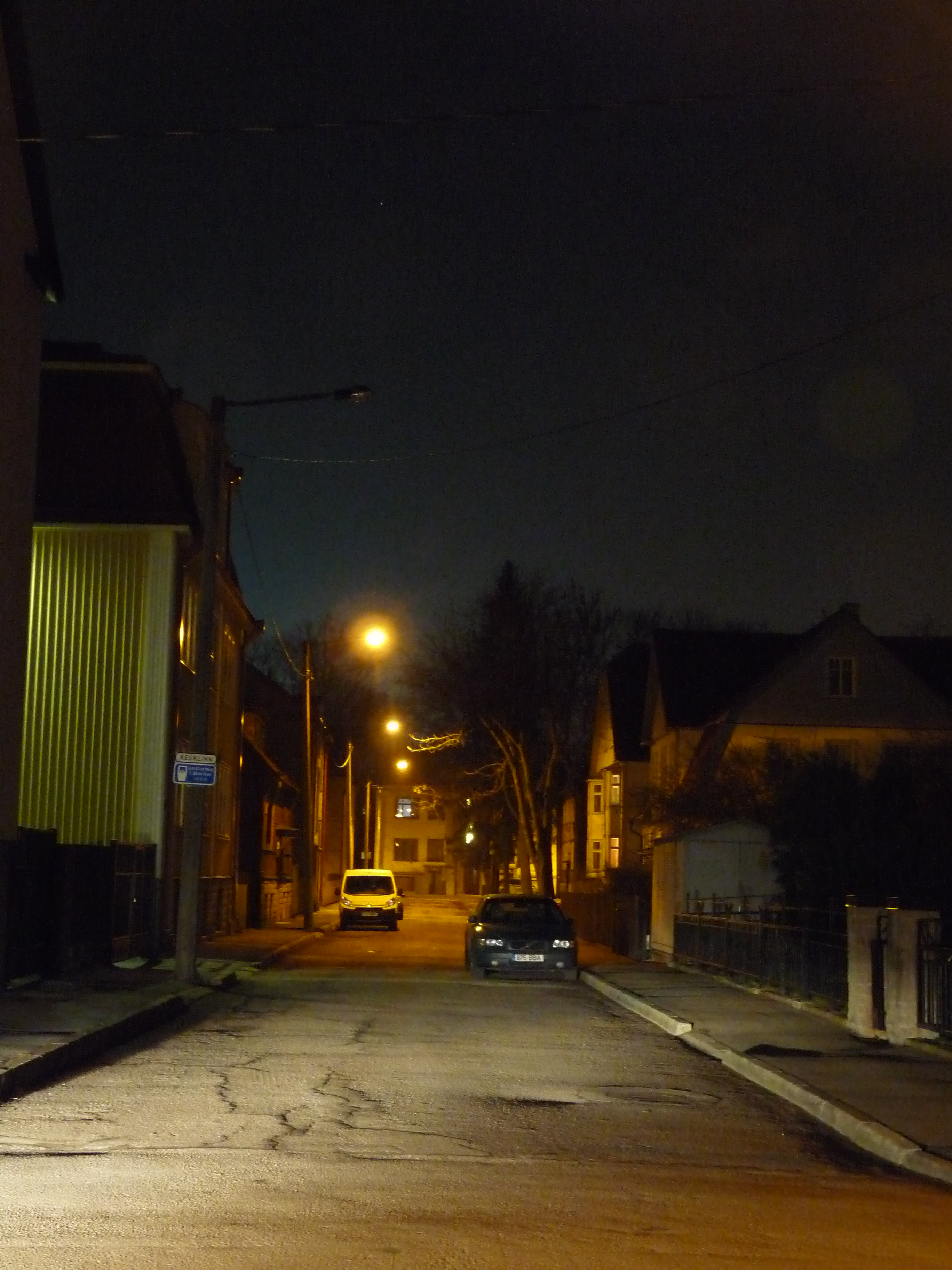 Aasa street in Tallinn, Estonia